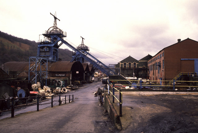 Six Bells Colliery, Abertillery. This colliery dated from 1891 and was moribund in 1989. It has since been swept clear. We were here to see a small steam engine driven ventilating fan - a unique survivor (that didn't for much longer).